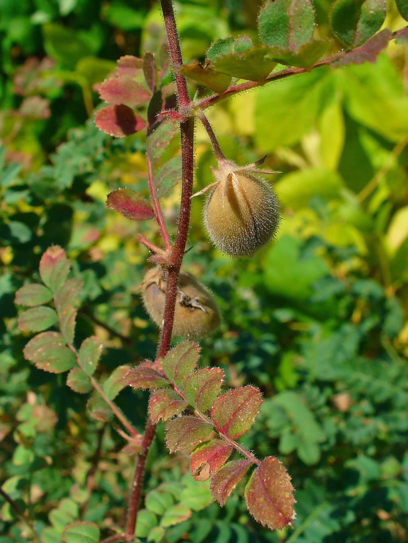 Cicer arietinum, Fabaceae, Chickpea, Garbanzo Bean, Indian Pea, Ceci Bean, Bengal Gram, fruit; Botanical Garden KIT, Karlsruhe, Germany.